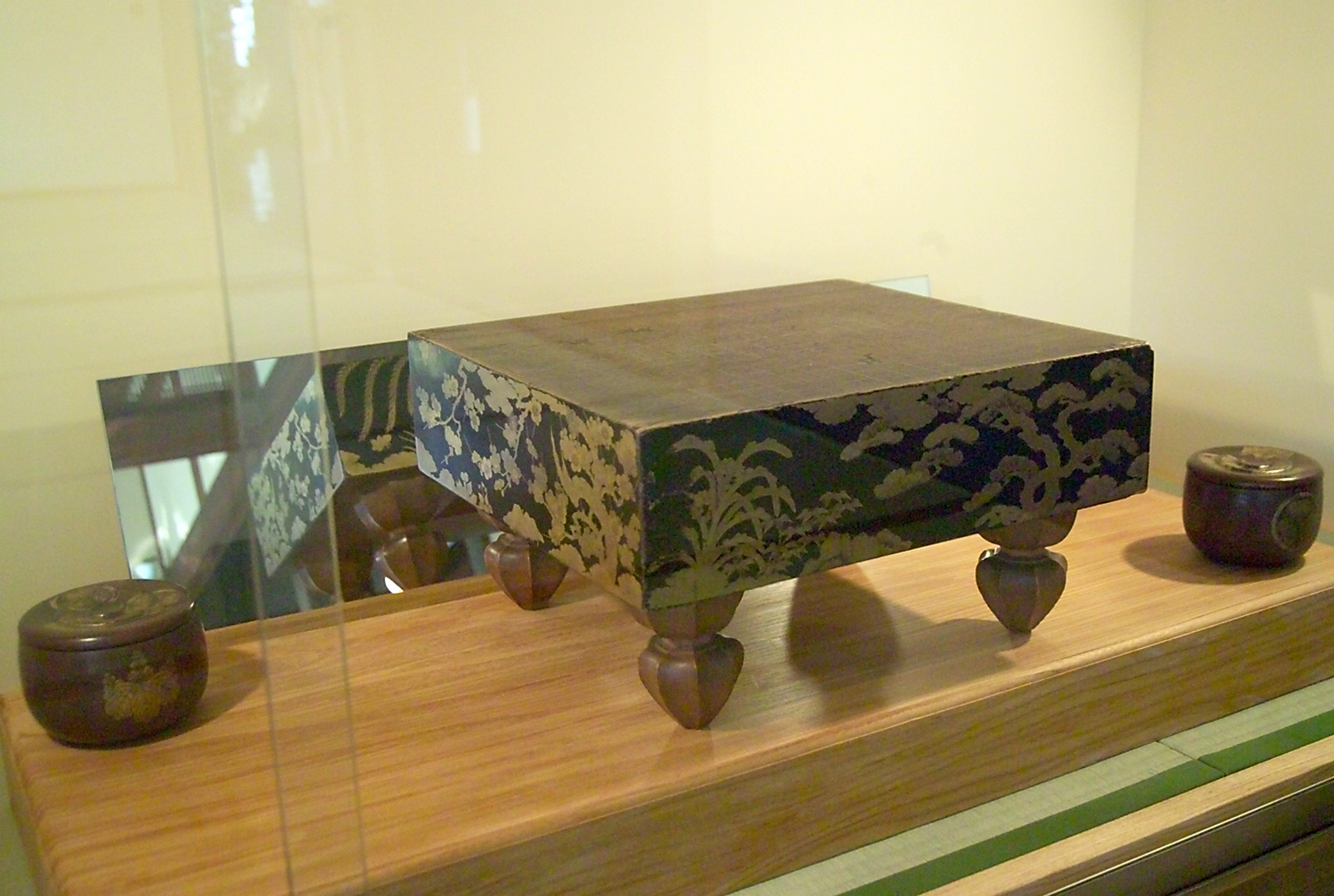 This maki-e go board is at the temple named Ryōgen'in 龍源院 at Daitoku-ji, Kyoto, Japan. It was used by Toyotomi Hideyoshi and Tokugawa Ieyasu. The containers to the left and right of the board bear their family crests. I took this photo and contribute my rights in the file to the public domain; individuals and organizations retain rights to images in it.